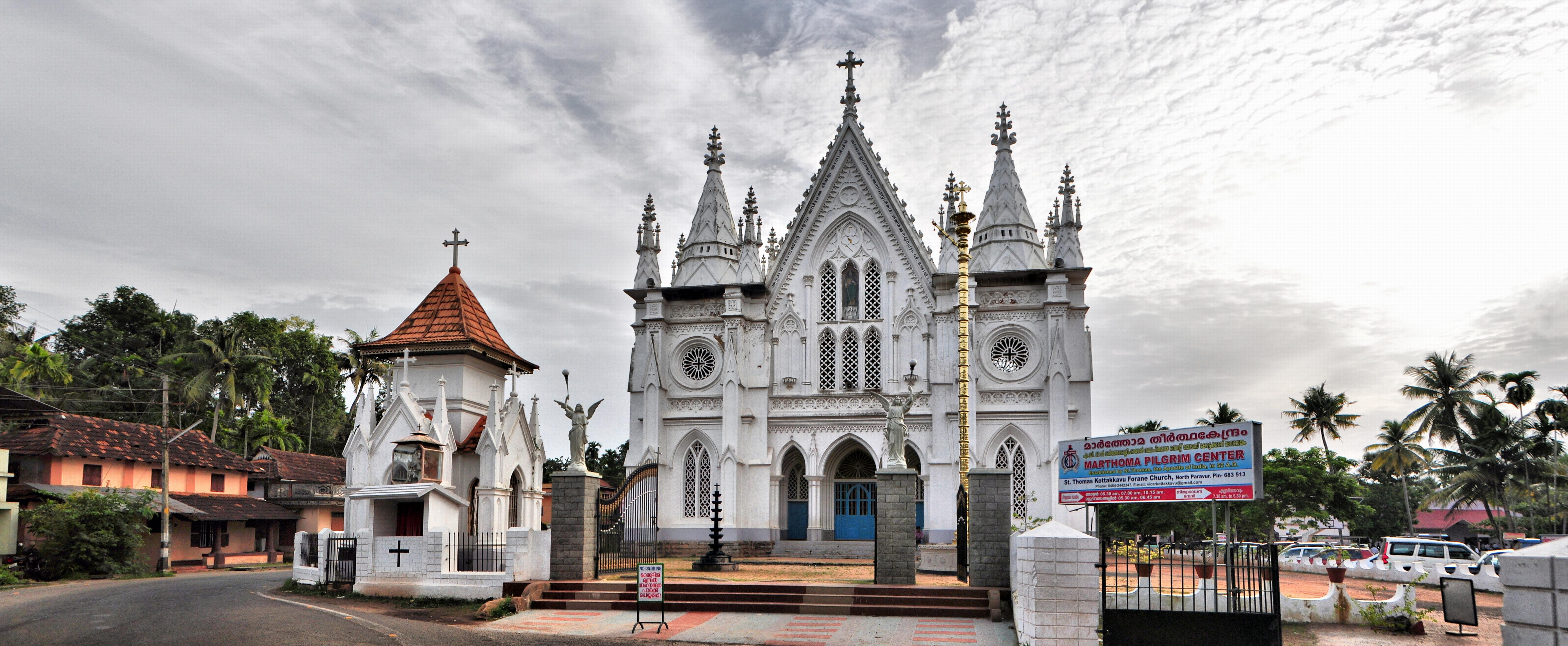 Kottakkavu Mar Thoma Syro-Malabar Pilgrim Church was founded by St. Thomas the Apostle in early first century. The church has witnessed renovation manytimes.